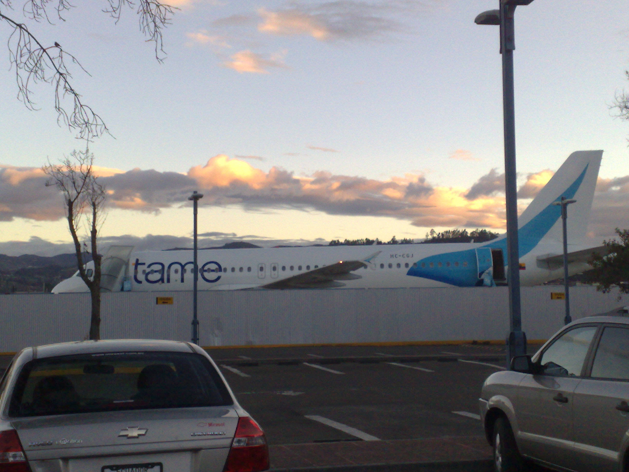 Airbus A320 of Tame, parked in Mariscal Lamar Airport in Cuenca, Ecuador